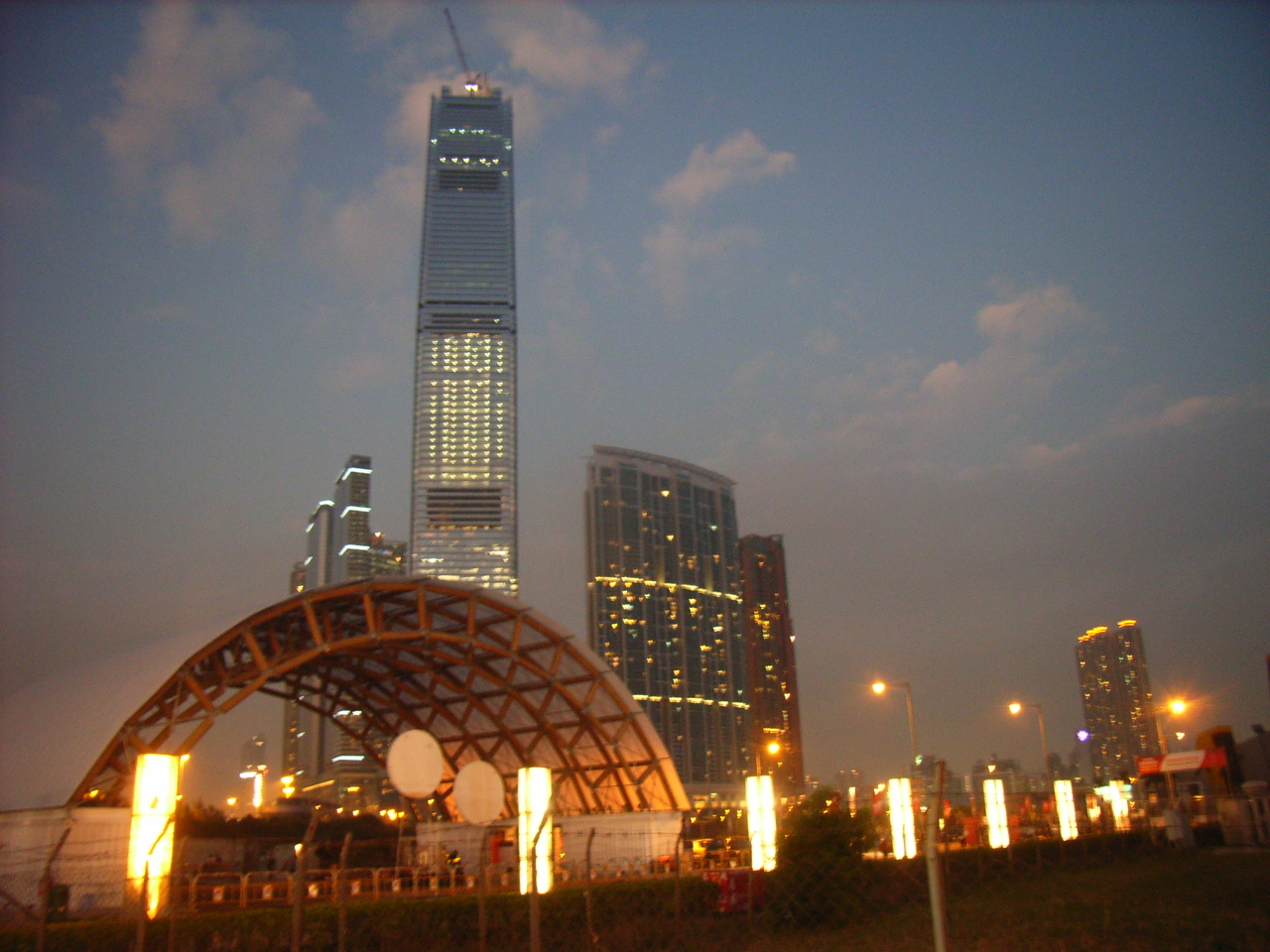 西九龍海濱長廊